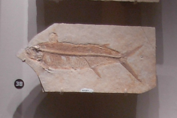 A fossil Thrissops subovatus from the Solnhofen limestones of Germany. Carnegie Museum of Natural History #cm4030